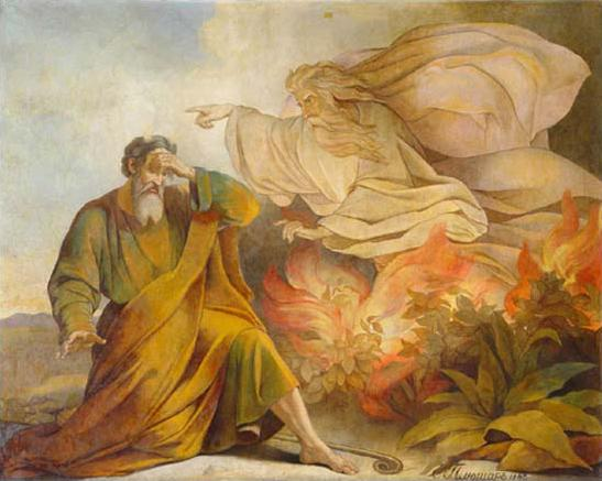 God Appears to Moses in Burning Bush. Painting from Saint Isaac's Cathedral, Saint Petersburg